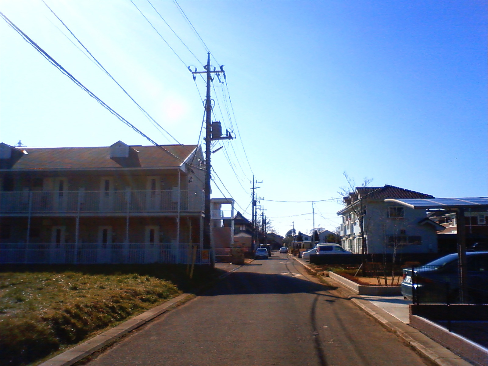 This is a landscape of Onogawa, Tsukuba, Ibaraki, Japan.